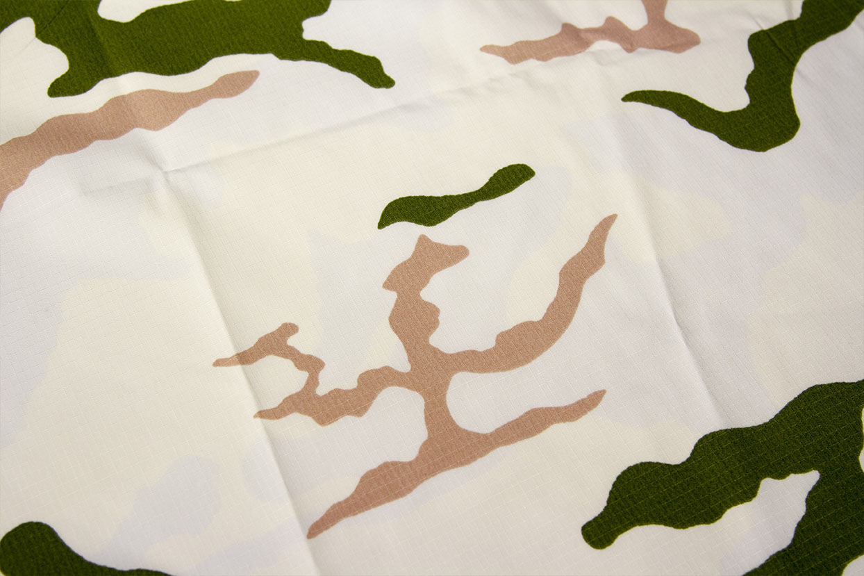 French Tundra Camo, used by the Chasseurs Alpins special forces.